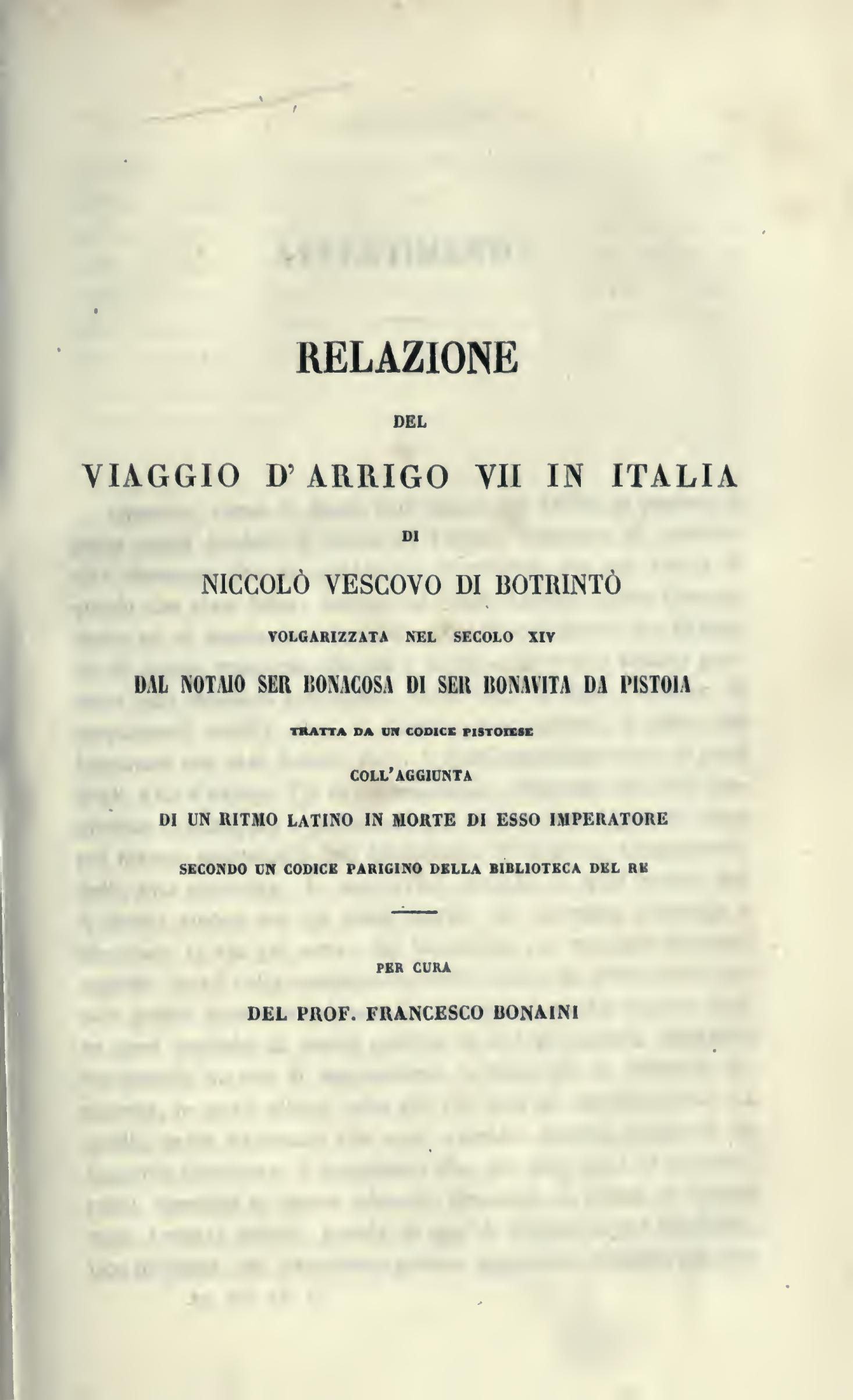 front page